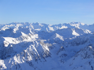 Central Pyrenees, as seen from the summit of the Pic du Midi de Bigorre (2877 metres).